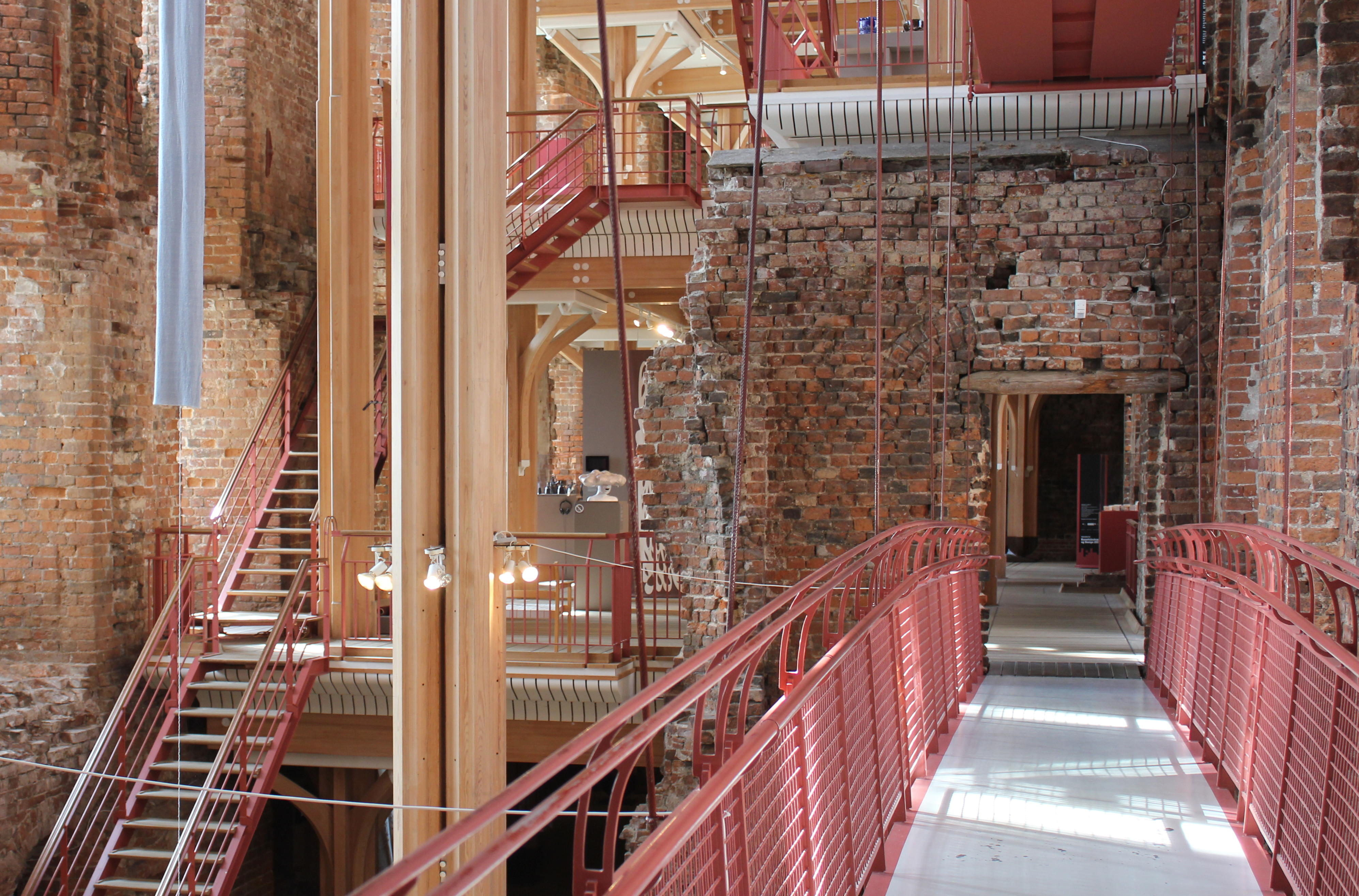 Koldinghus is a royal palace and a castle,built in the 1200s, it has played a significant role in Denmark's history: as a border guard, as a royal residence and the castle housed the local state administration. Throughout the Middle Ages, the location ment that Koldinghus, was one of the largest and most important castles.The night between 29th and 30 March 1808 a giant fire broke out. On the second day, a part of the Great Tower crashed down and Koldinghus was left as a ruin. In 1536, King Christian 3 (1536-59) became king and with his wife Dorothea, they started a complete change of Koldinghus. All medieval defense devices were removed and Koldinghus was rebuildt as a civil Castle, the residence of the king and his family in the western part of the kingdom. Over the last 100 years the ruin has been restored several times and is now museum of cultural history. In the early 1930s, the Great Tower to fall apart, but they managed to raise money for rebuilding the tower. It was not until the 1970s that the final, complete restoration of Koldinghus was begun. The restoration project was headed by the architects Inger and Johannes Exner.